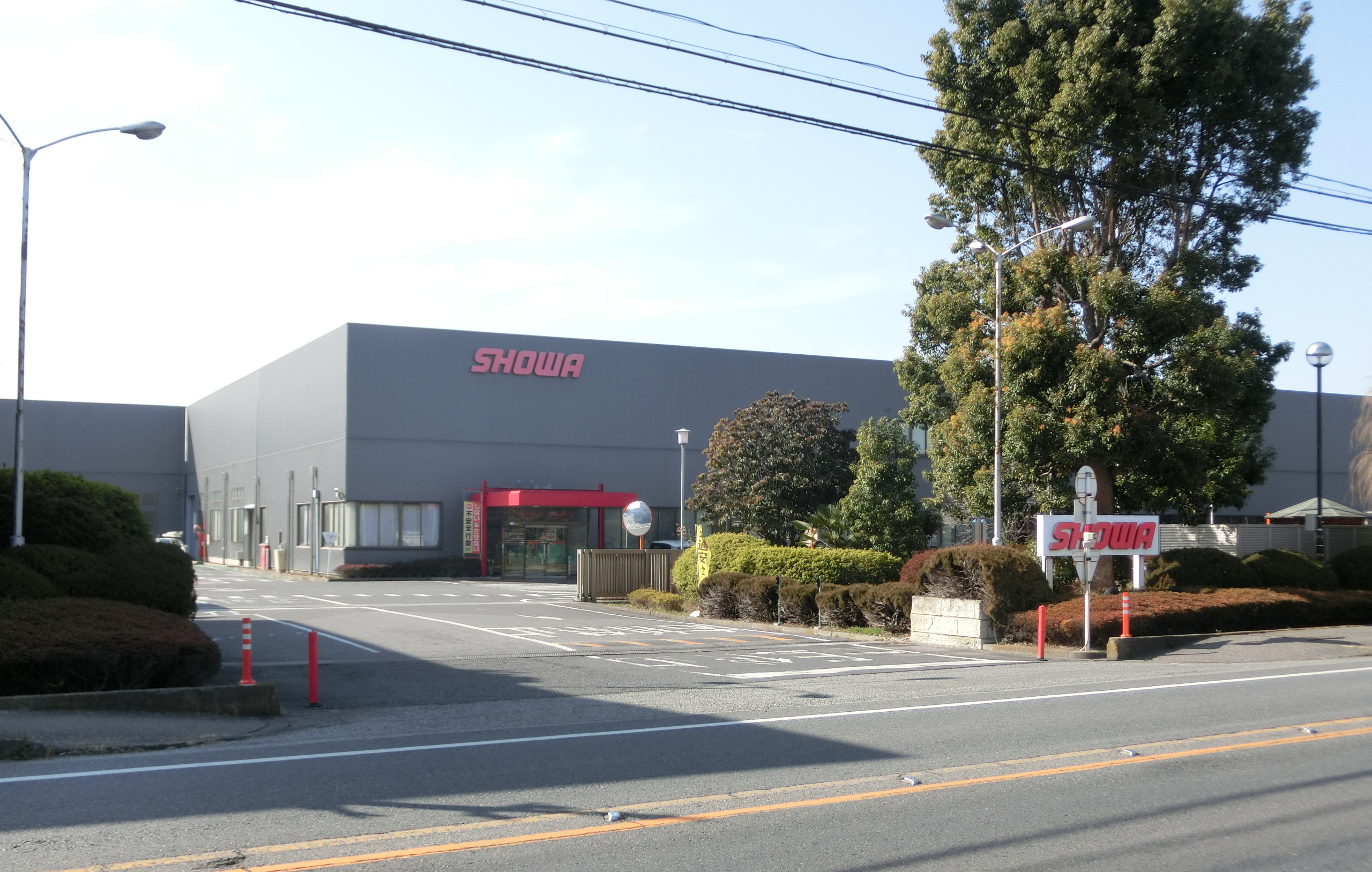 Showa Corporation Head Office